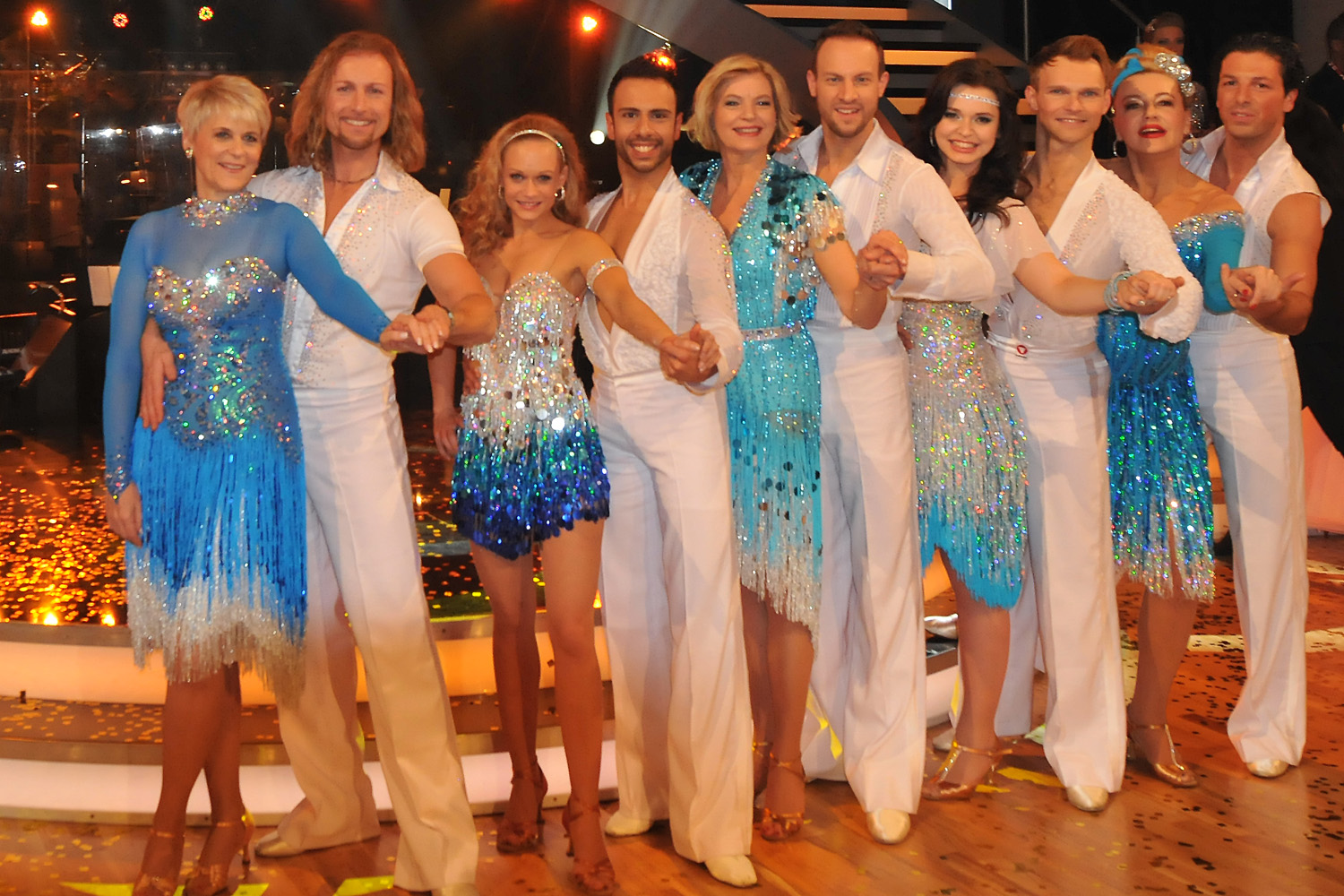 ORF Dancing Stars 2014: Damen